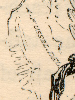 Signature of A[lexander] Fussell on wood engraving of Snowy Owl. He drew nearly all the (over 500) illustrations for Yarrell's History of British Birds 1843, mostly unsigned.